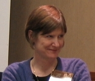 Photo of Sharon Shinn, taken by Scott Thomas at Capricon 29 in Wheeling, IL, on 20th February 2009.